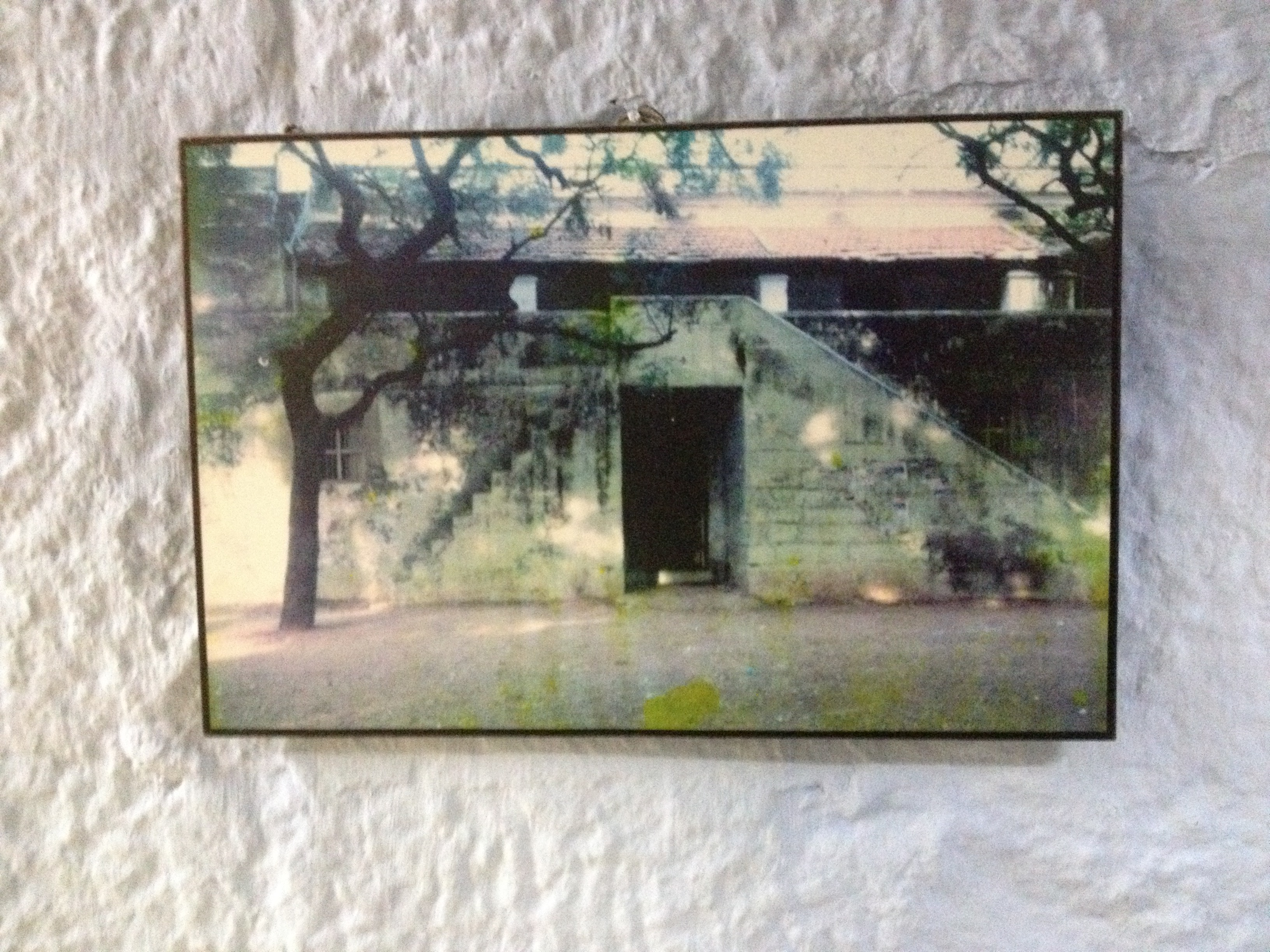 Tirunelveli Govt Museum -View of the historical Builing